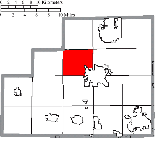 Map of the municipal and township boundaries of Medina County, Ohio, United States, as of the 2000 census, with the location of York Township highlighted. Township borders are shown only in unincorporated areas in order to differentiate incorporated and unincorporated areas more clearly.